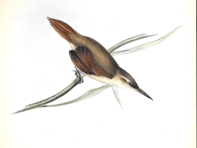 Limnornis rectirostris = Limnoctites rectirostris The Zoology of the voyage of H.M.S. Beagle, under the command of Captain Fitzroy, R.N., during the years 1832-1836 Pl.26